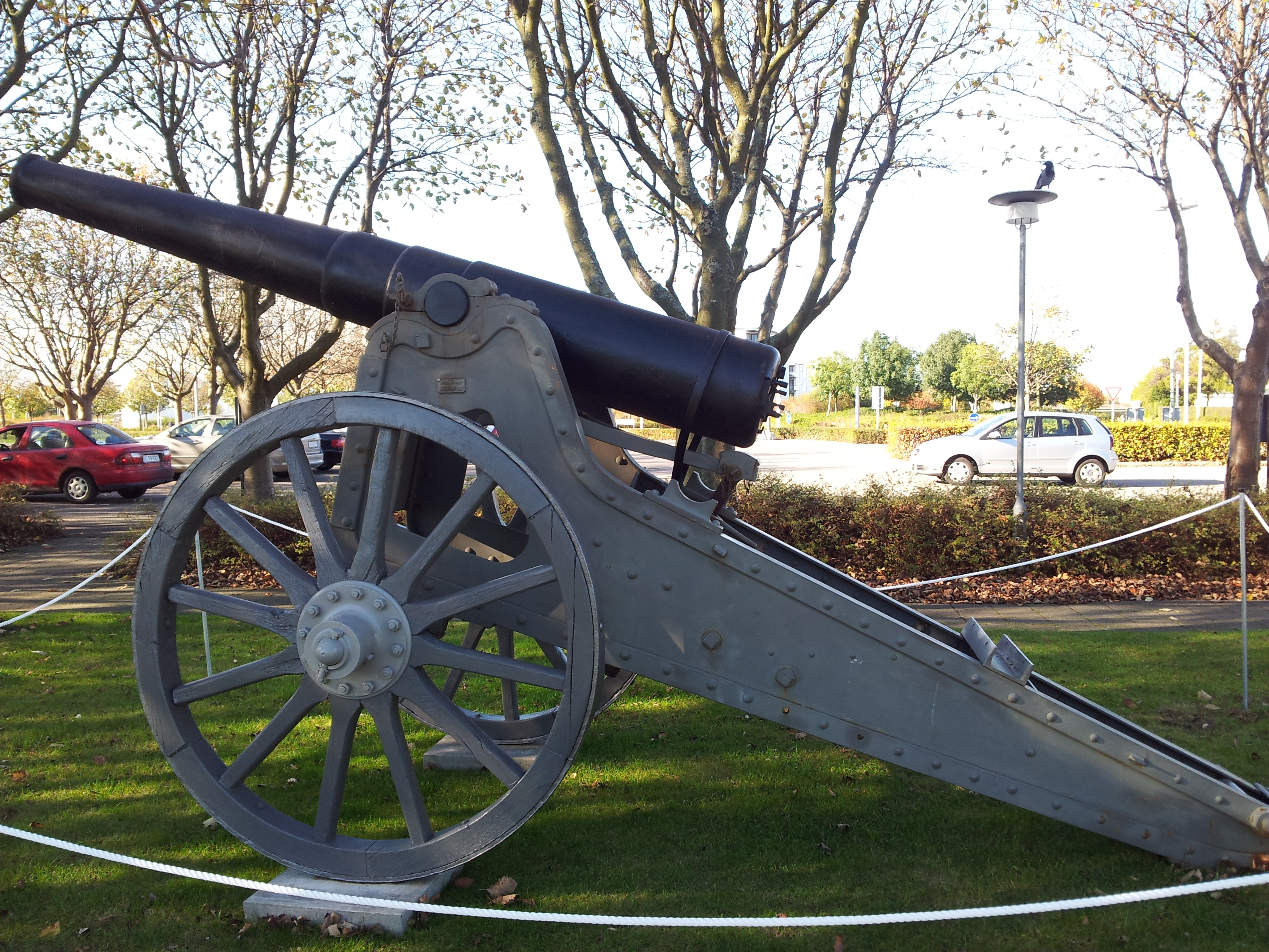 120mm canon at Mosede FortDansk: Mosede Forts 12cm kanon